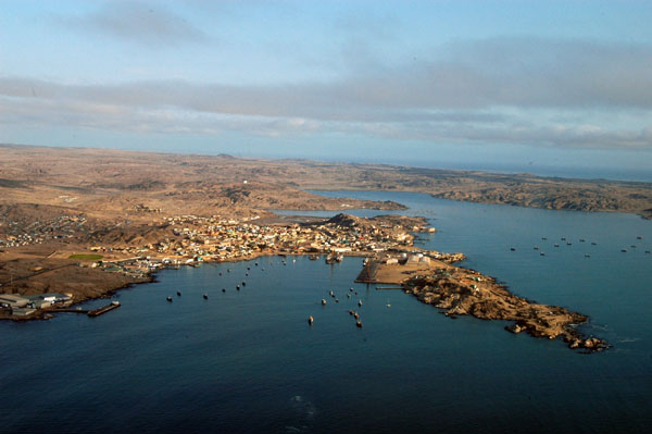 Close-up aerial photo of Lüderitzbucht